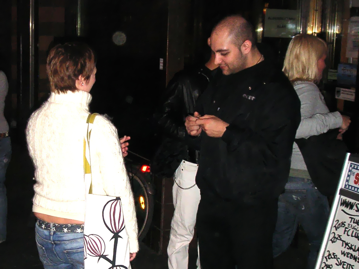 Picture of a Norwegian doorman outside Sportsbaren, Oslo, Norway.